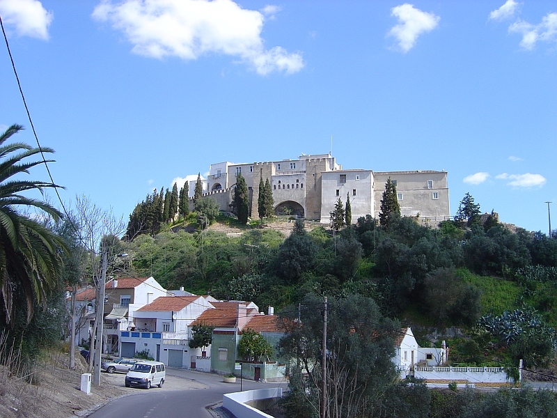 Castle and Pousada D. Afonso II, Alcácer do Sal, Alentejo, Portugal